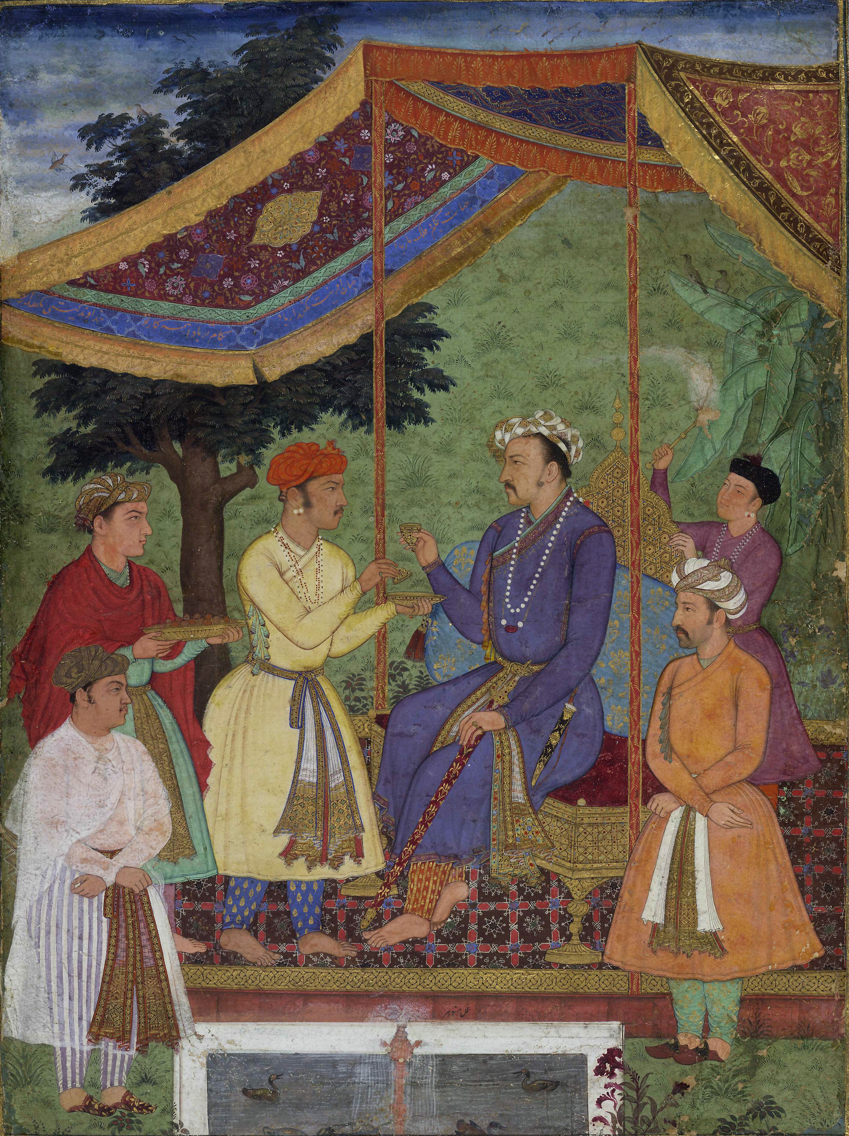 Mughal Empereor, Jahangir, is being served food and drink by his two sons Khusrau and Parviz. Mughal dynasty, India.